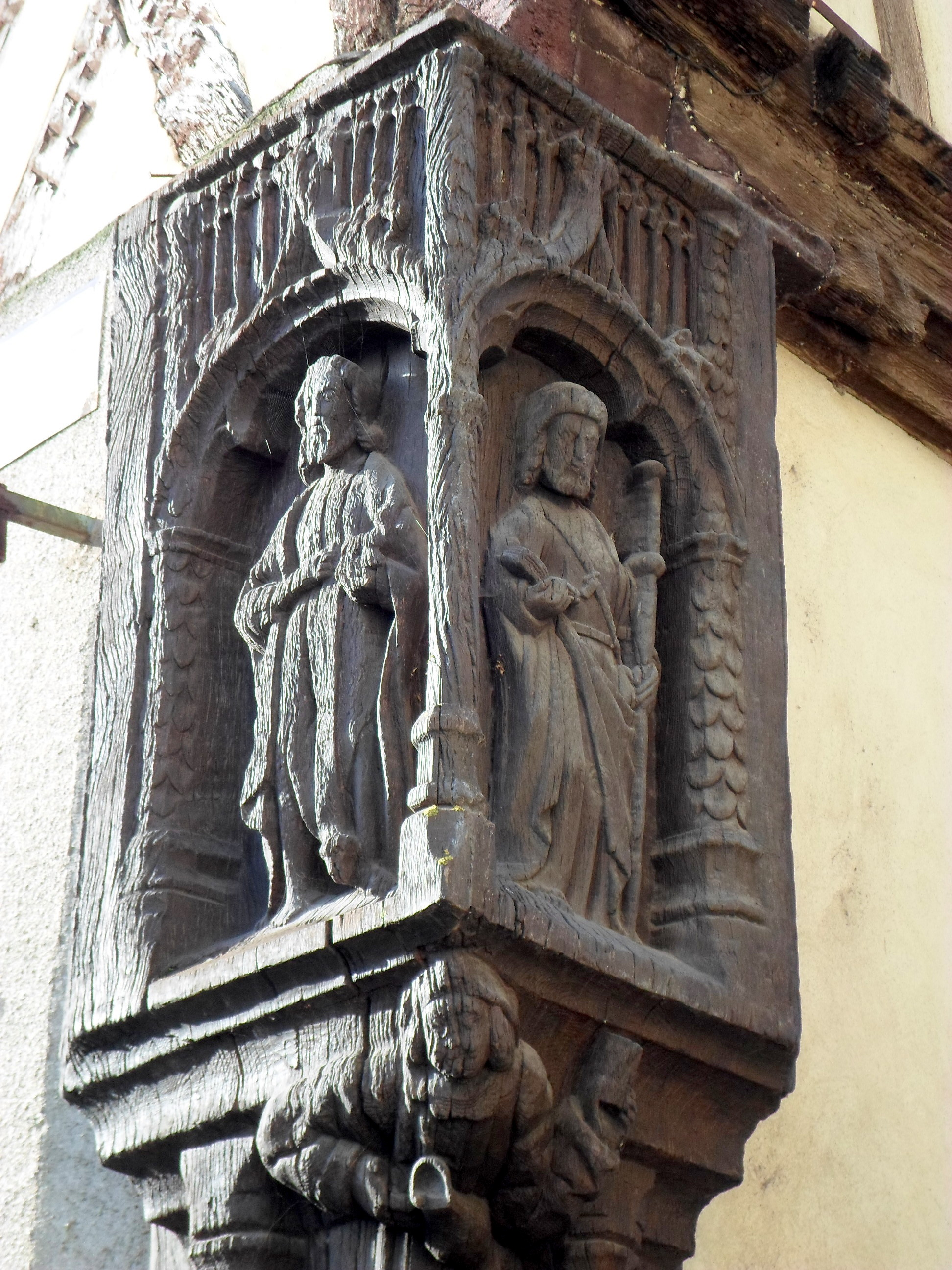 Poteau cornier de la boulangerie de Saint-Julien-du-Sault (Yonne - France)